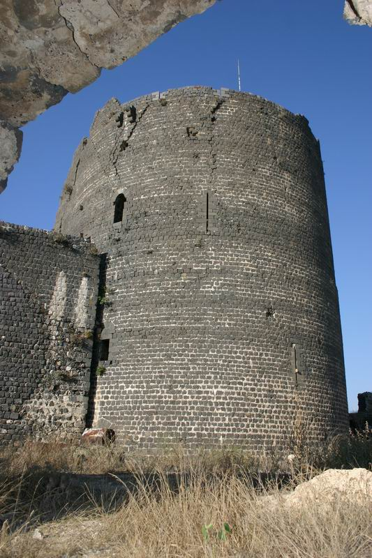 Margat, eigenes Foto von 2004, public domain Donjon